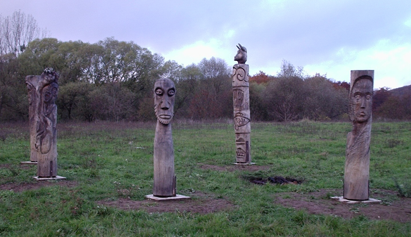 A art projekt in Hütscheroda.